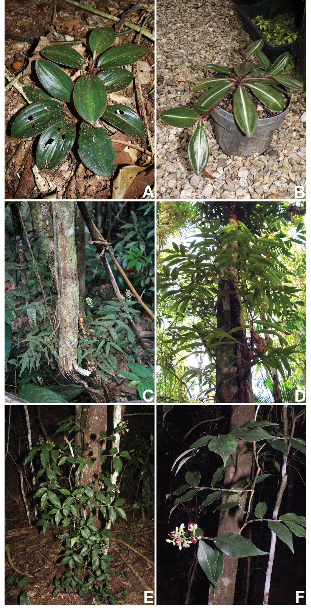 Growth forms in Dichorisandrinae s.s. A–D Siderasis Raf. emend. M.Pell. & Faden: A rosette habit of S. fuscata (Lodd.) H.E.Moore B rosette habit with flagelliform-shoots of S. albofasciata M.Pell. C habit of an immature, still prostrate, individual of S. zorzanellii M.Pell. & Faden. D habit of a mature individual of S. zorzanellii spirally ascending a tree. E–F Dichorisandra hexandra (Aubl.) C.B.Clarke: E intertwined habit F decumbent stem apex, bearing flowers and fruits. Photographs A–B, E–F by M.O.O. Pellegrini, C–D by J.P.F. Zorzanelli.